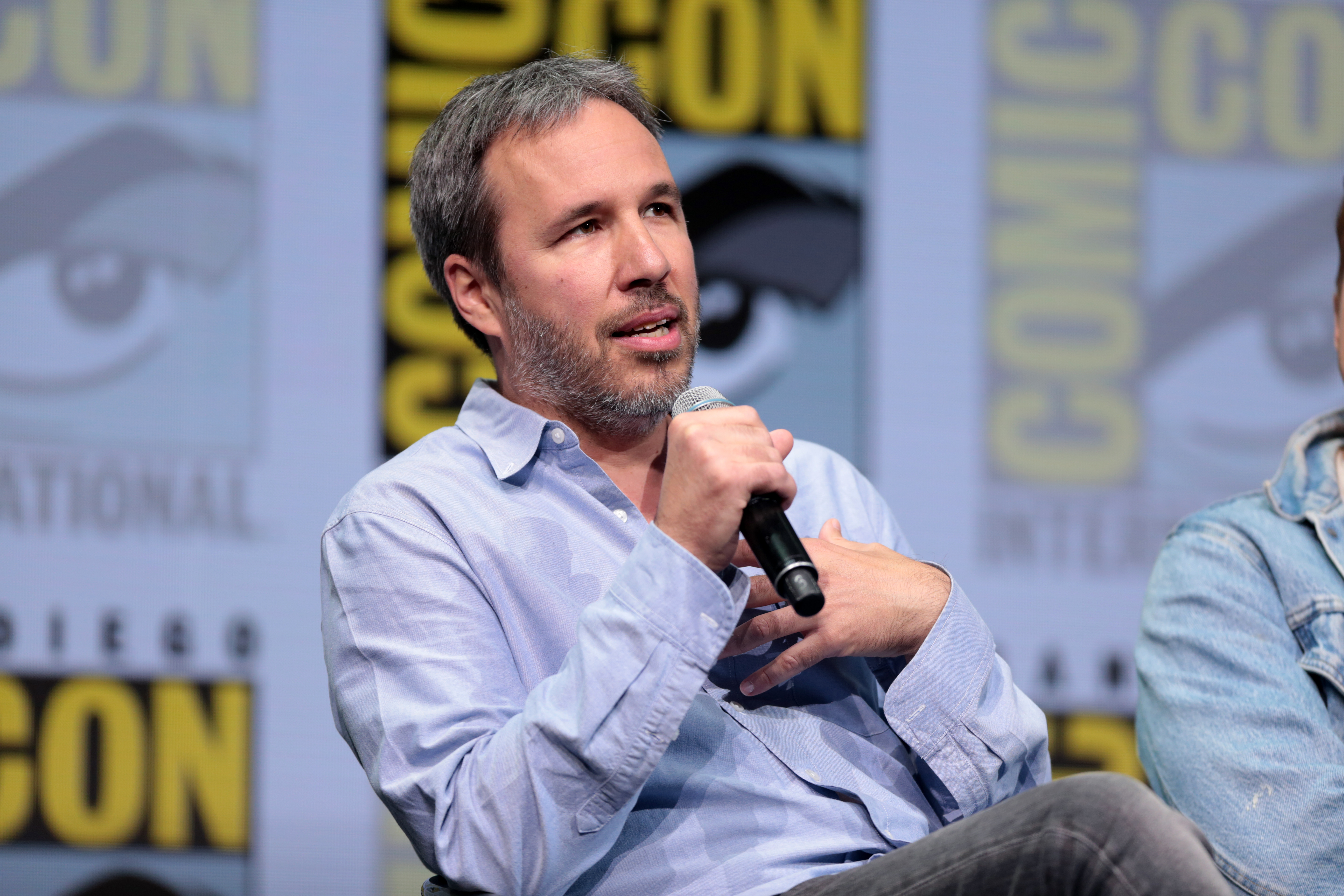 Denis Villeneuve speaking at the 2017 San Diego Comic Con International, for "Blade Runner 2049", at the San Diego Convention Center in San Diego, California.